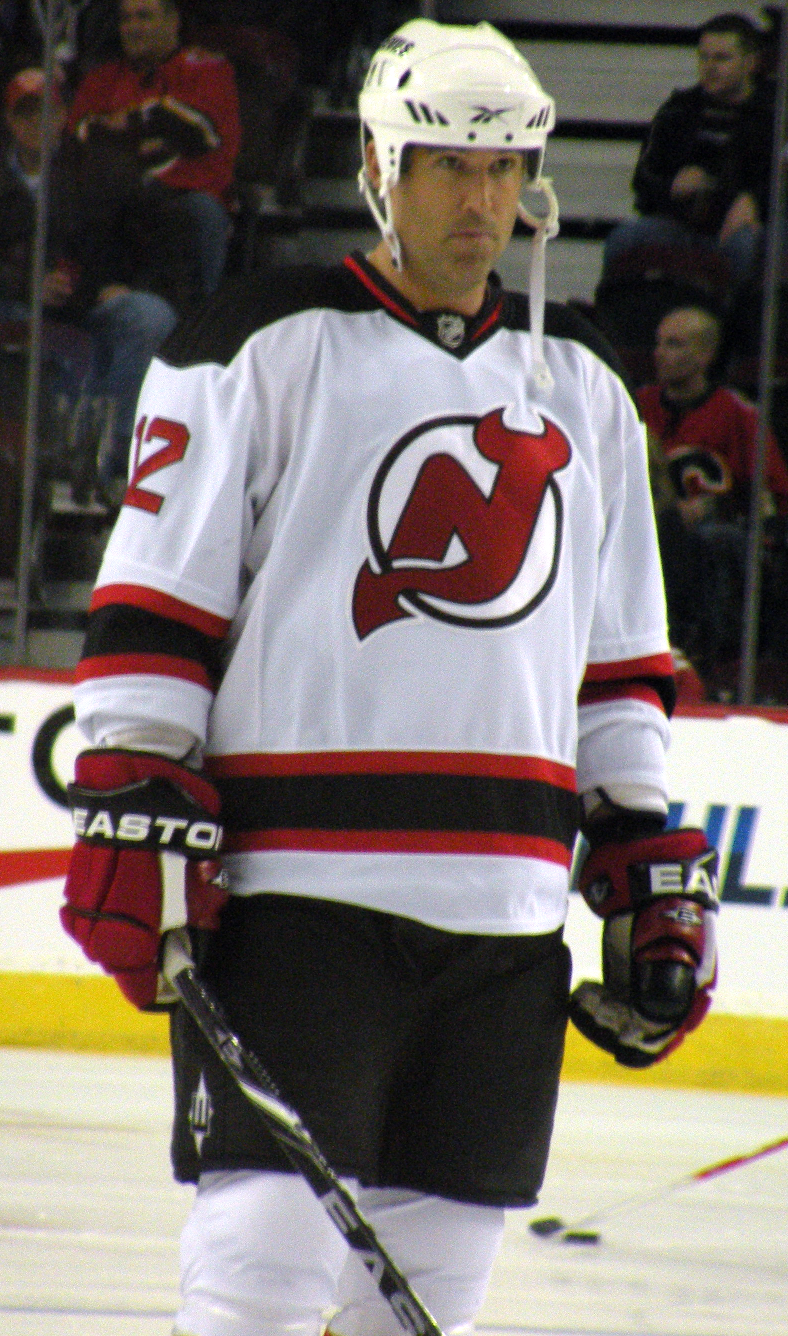 New Jersey Devils forward Brian Rolston prior to a National Hockey League game against the Calgary Flames.